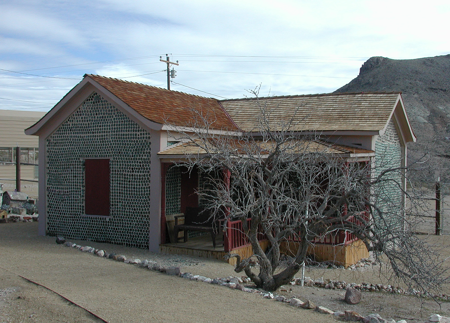 Tom Kelly's Bottle House in the ghost town of Rhyolite, Nevada, looking east